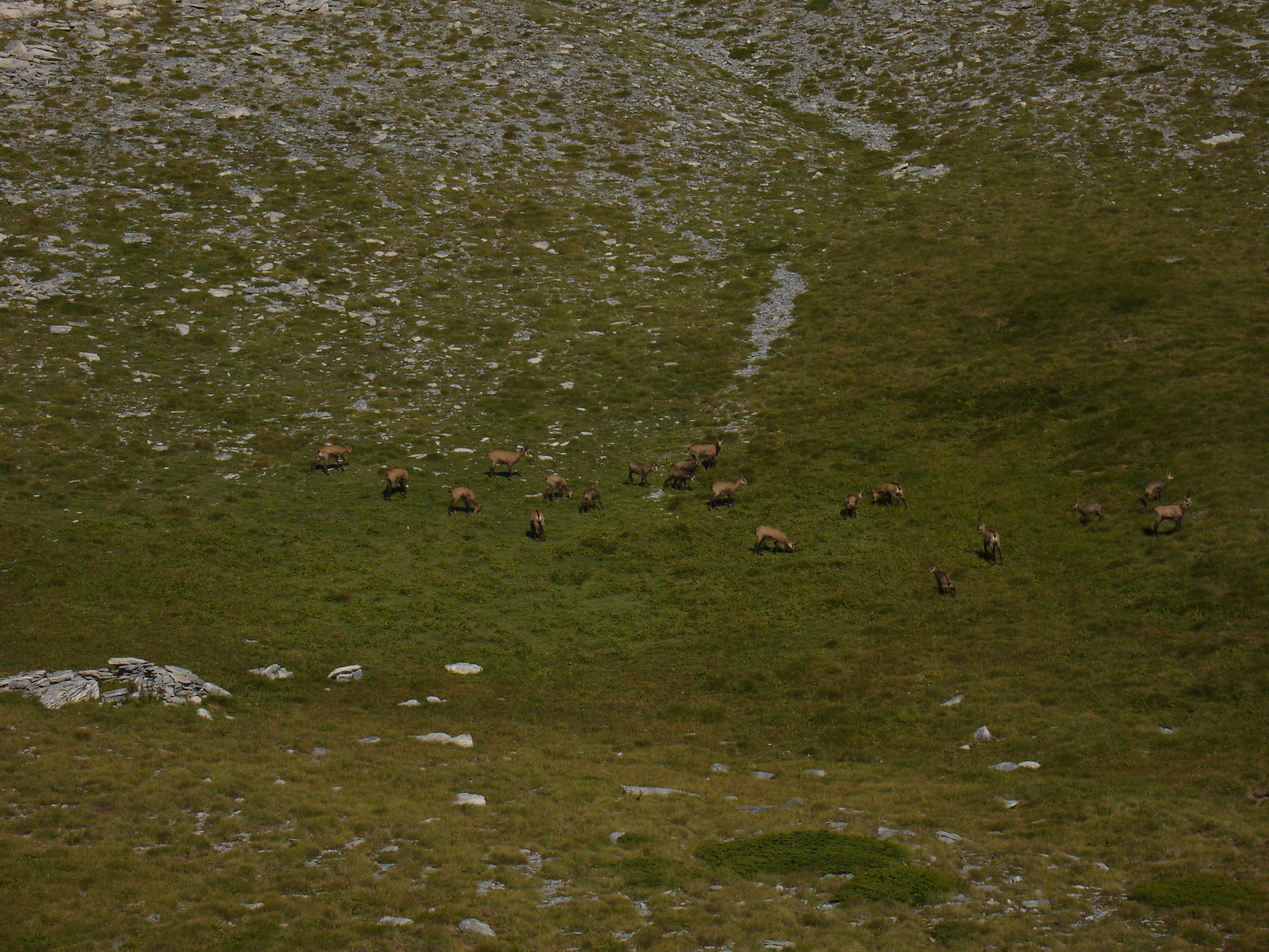 This is a photography of Natura 2000 protected area with ID GR1250001